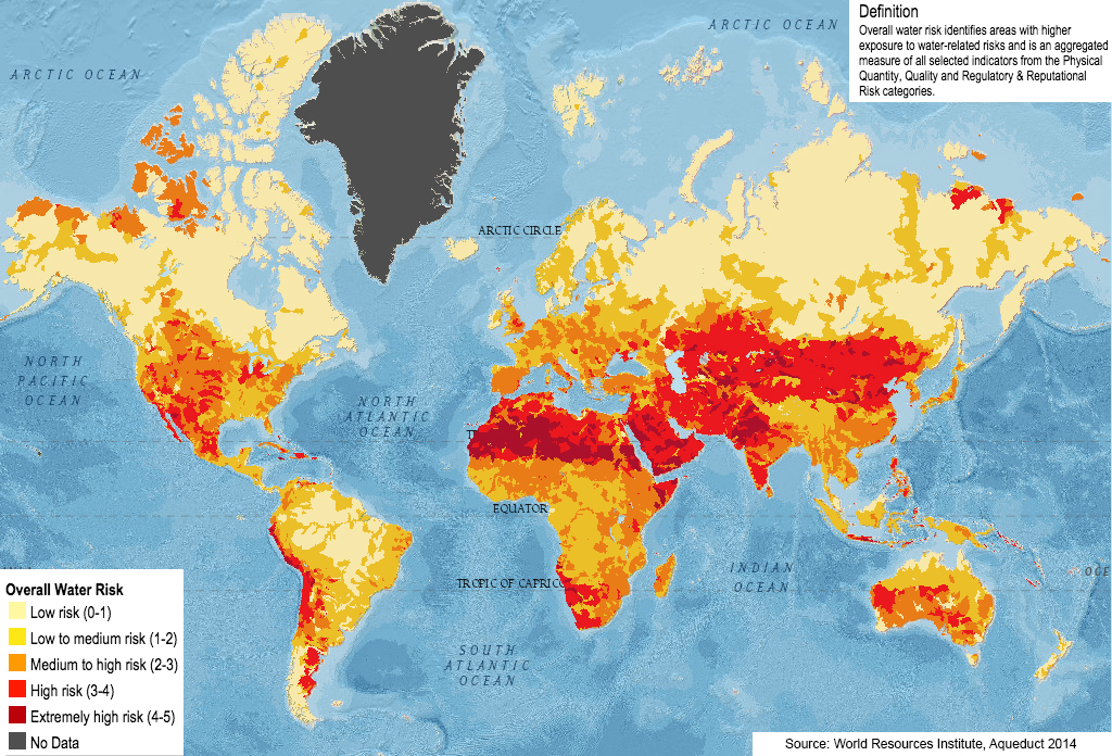 Global view of local exposure to water-related risks. Aggregated measure of quantitative, qualitative, regulatory and market based risks to local availability of adequate water supply, as well as risk of flooding.